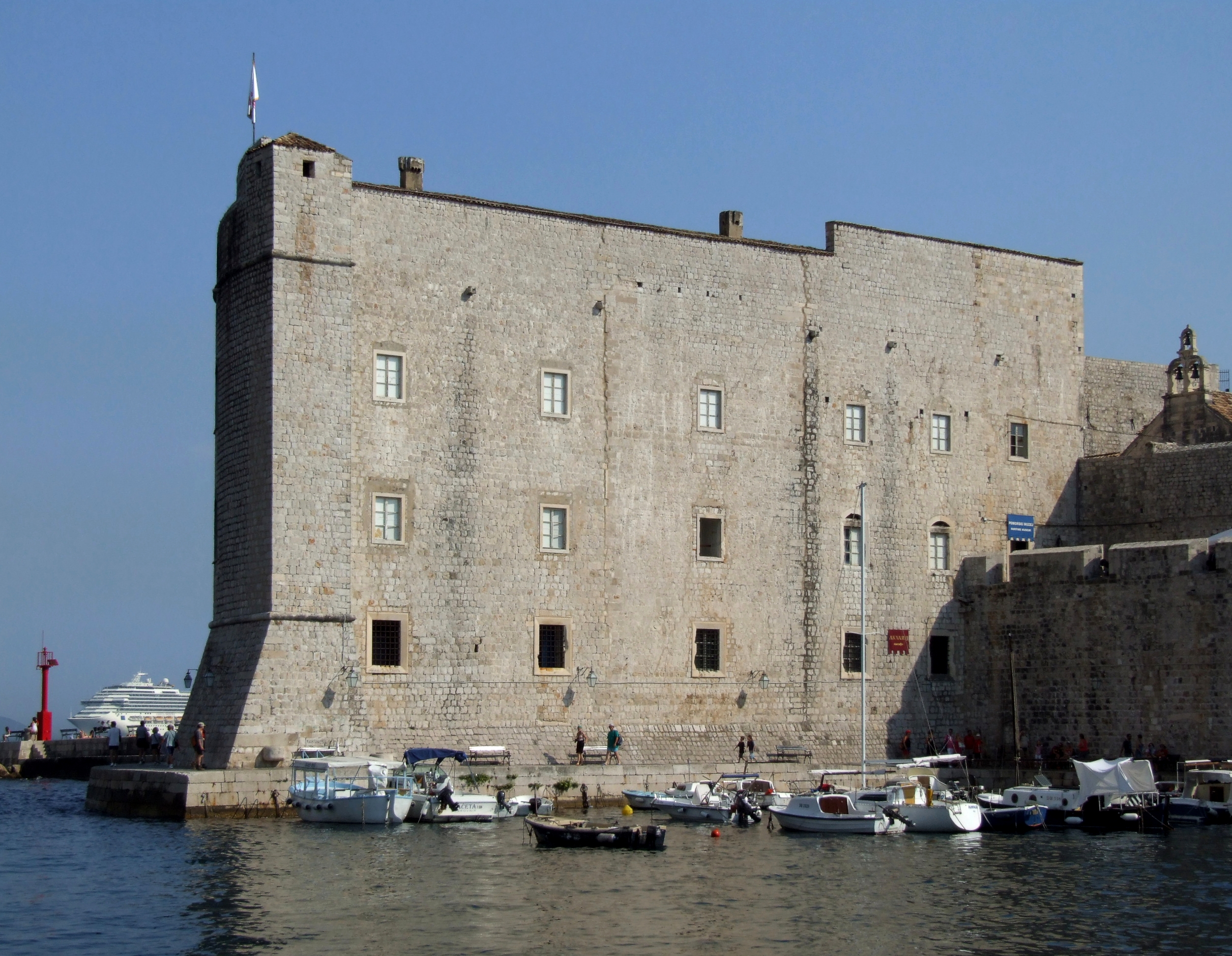 Dubrovnik - St. John Fortress